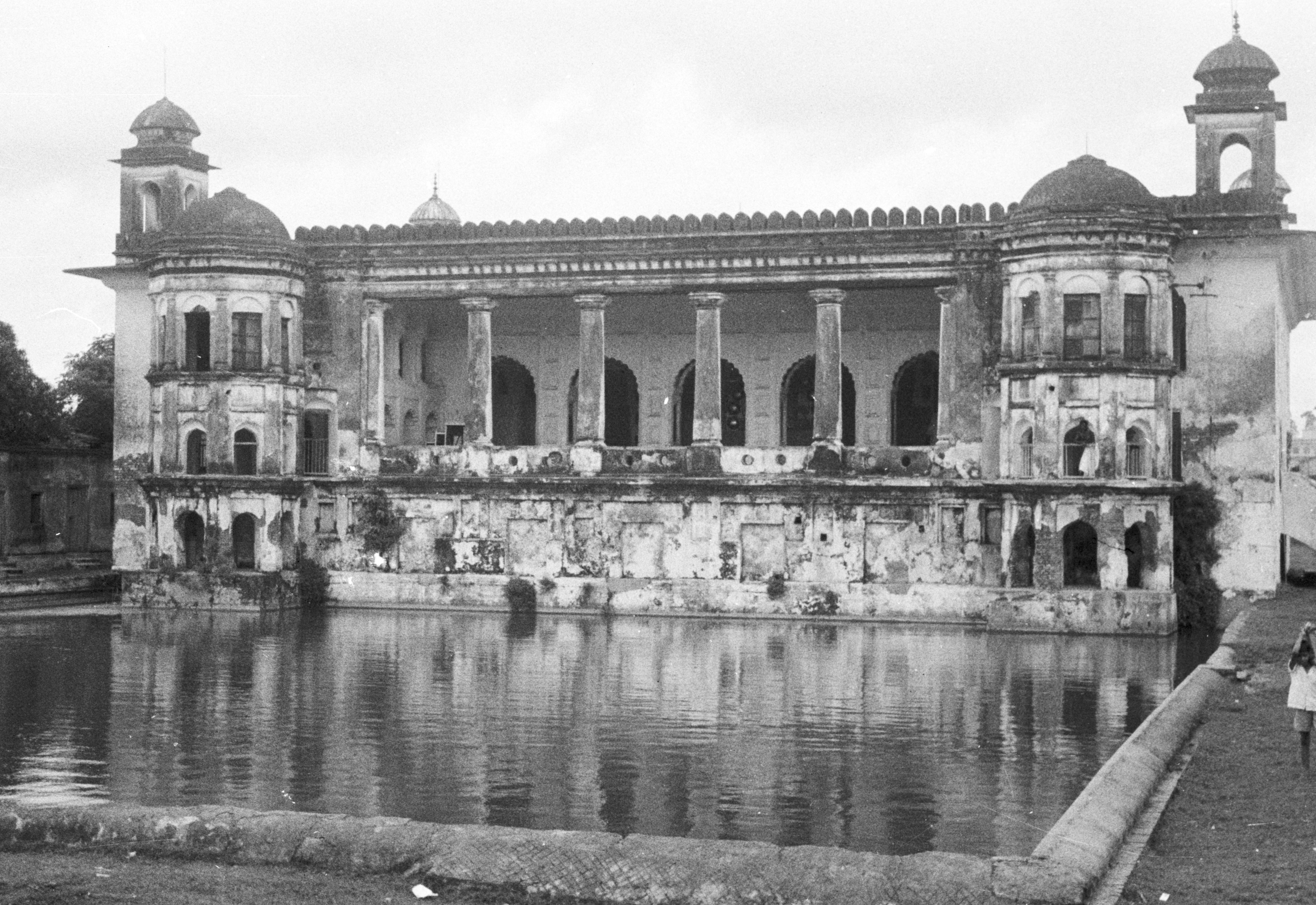 Hussaini Dalan, the Shia community centre, Dhaka, Bangladesh.